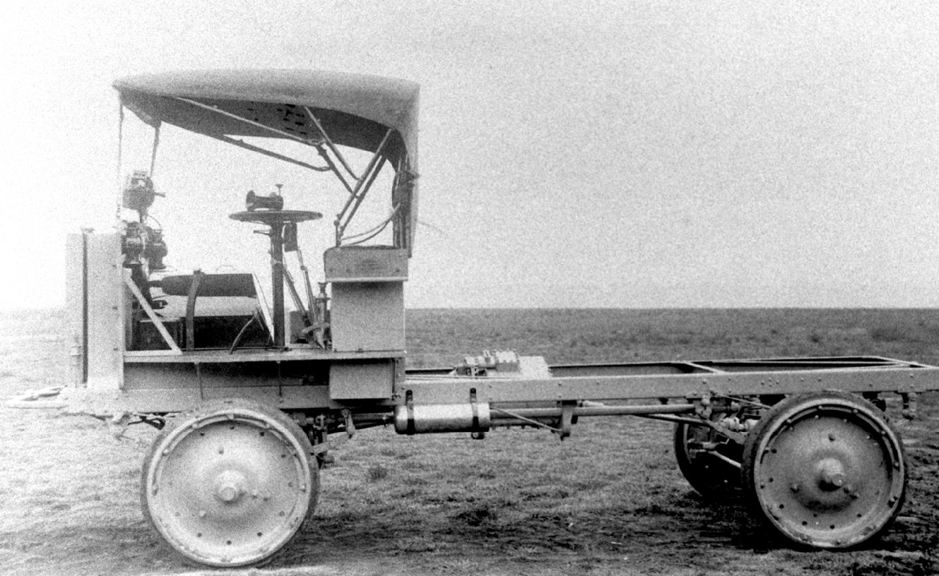 The Jeffery “Quad” one and a half ton, four-wheel drive truck, selected as the standard truck for the 1st Aero Squadron. A standard army wagon bed and canvas cover mounted to the chassis completed the vehicle.